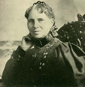 Clara Barton in 1897, from a 1902 issue of a long defunct magazine